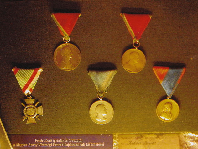 Fehér Ernő kitüntetései(HADTÖRTÉNETI MÚZEUM)